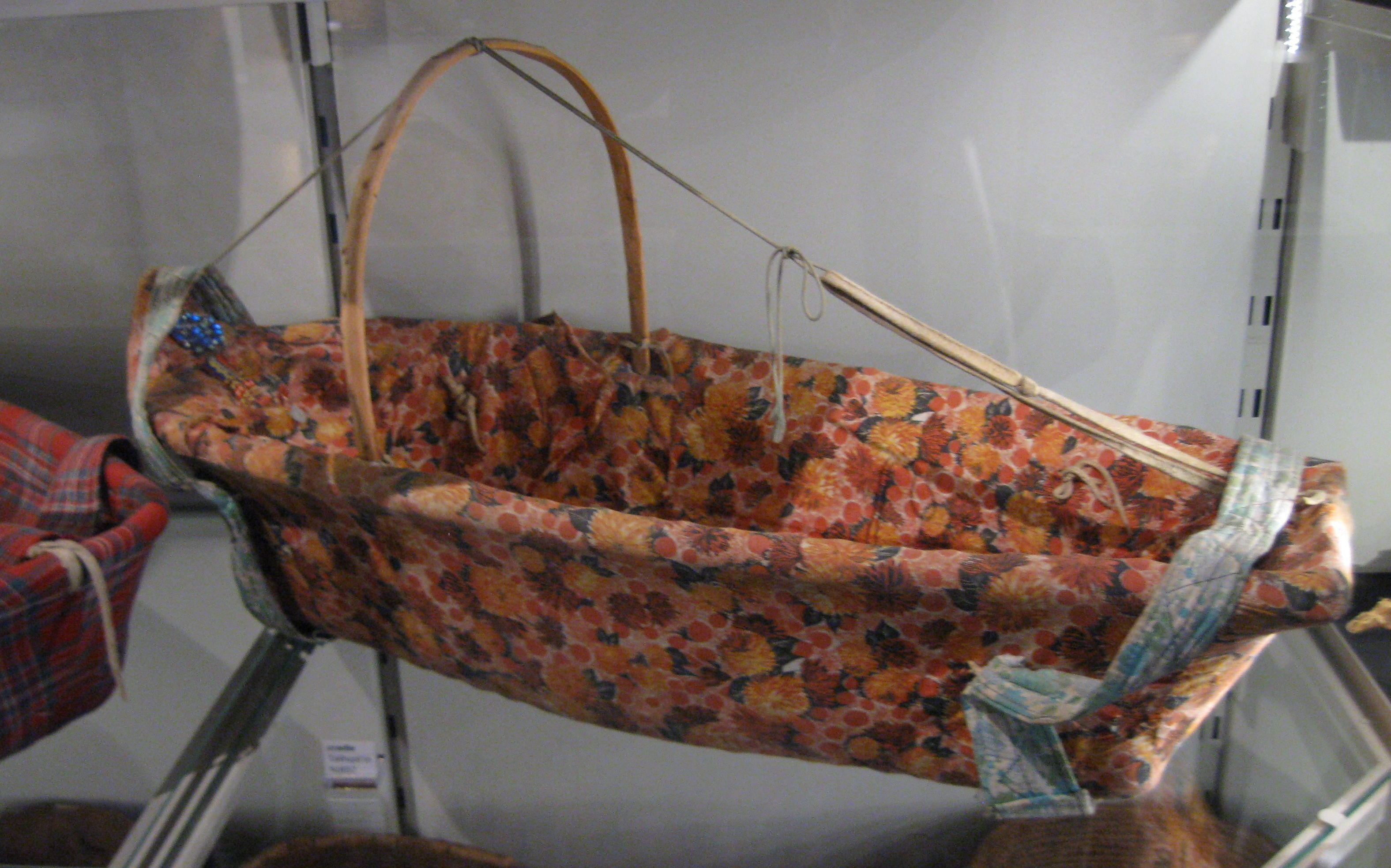 This is a unique and somewhat rare Tsilhqot'in peoples' baby cradle. It is today located at UBC's Museum of Anthropology in Vancouver, Canada.